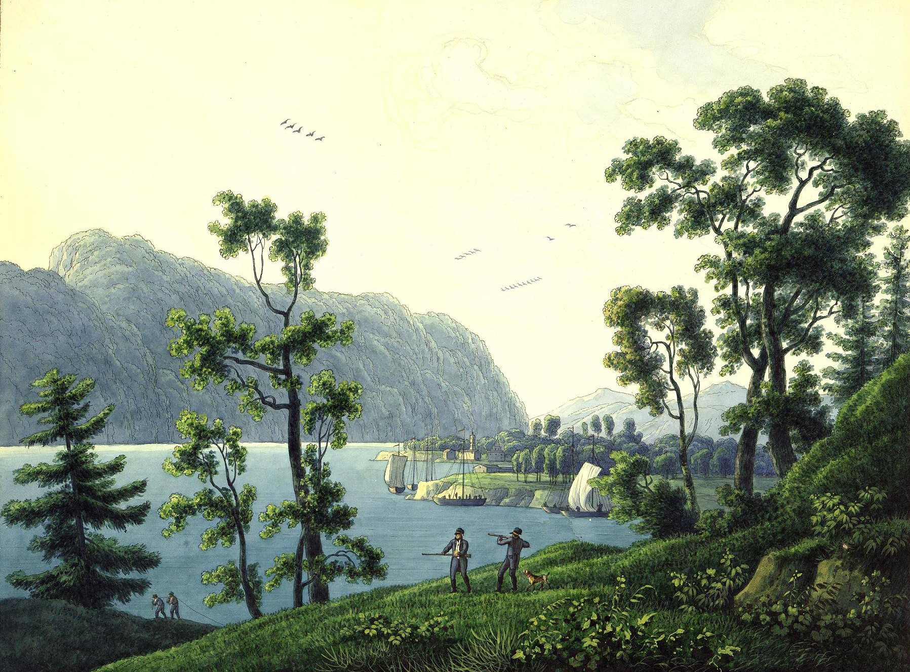 View of the Nikolsky Monastery on Lake Baikal by Russian painter Andrey Martynov (1768-1926)